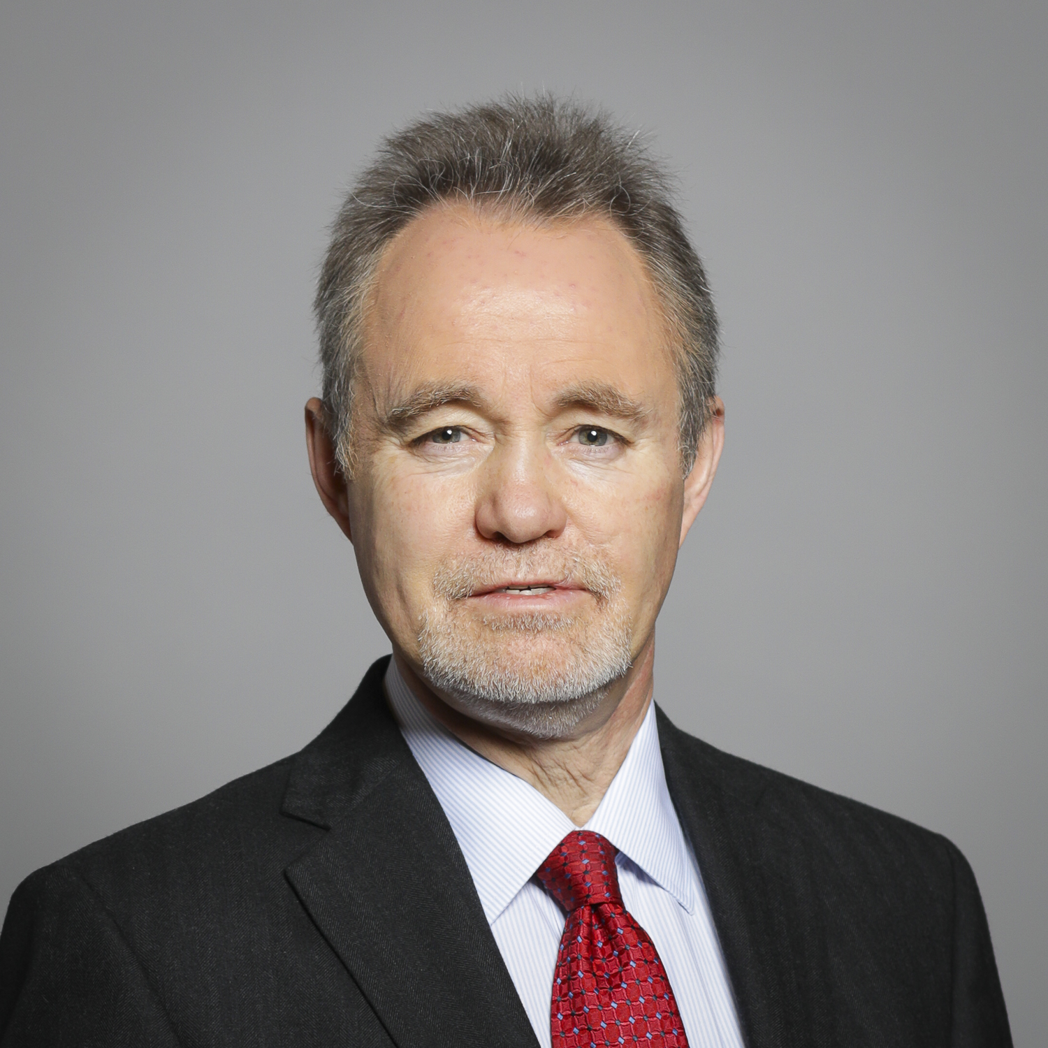 Official portrait of Lord Truscott 1×1 portrait of Lord Truscott